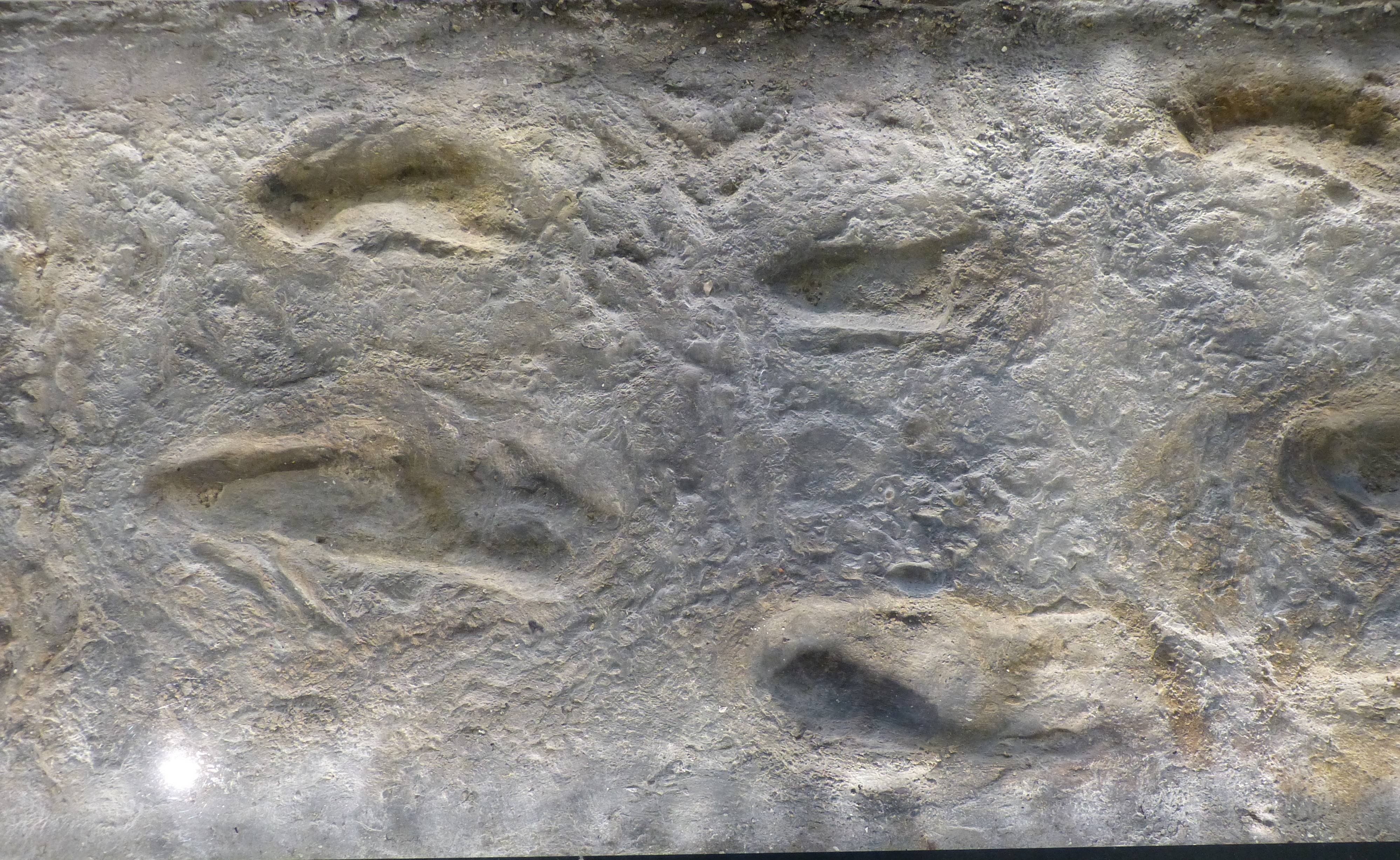 Natural History Museum, Vienna ( Austria ). Casts of the Laetoli footprints.